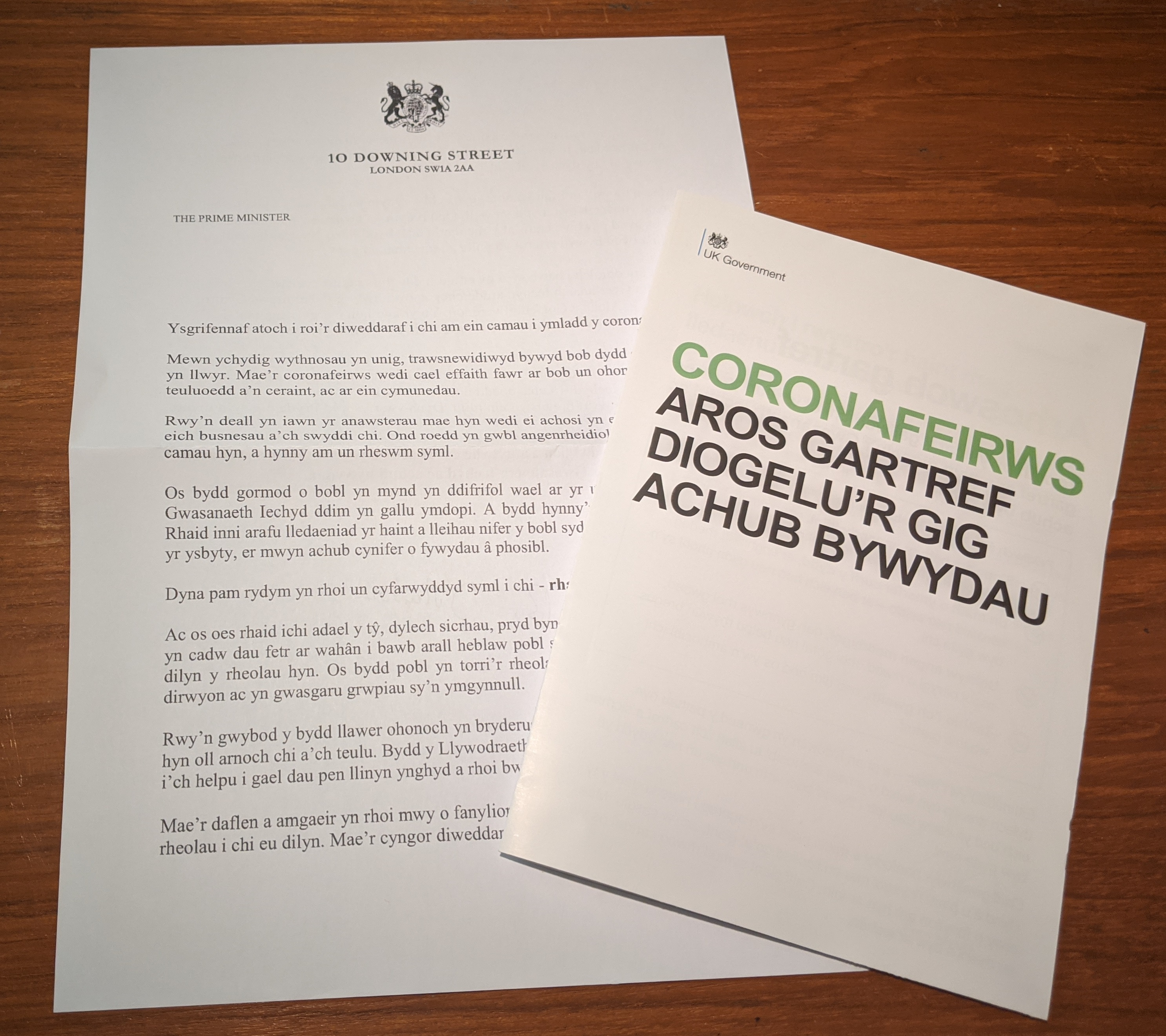 Official UK Government correspondence sent to every home in the United Kingdom during the Coronavirus pandemic. The envelope contained a letter from the Prime Minister, Boris Johnson, which told everyone to stay home except in certain circumstances. As well as a public information leaflet providing citizens with information about the Government's advice. This picture is the Welsh version of the letter and leaflet. It was delivered by Royal Mail in Welsh and English to every citizen in Wales. It was estimated to cost around £5.7 million, to reach all 30 million homes in the UK by the end of March 2020 and the beginning of April 2020.